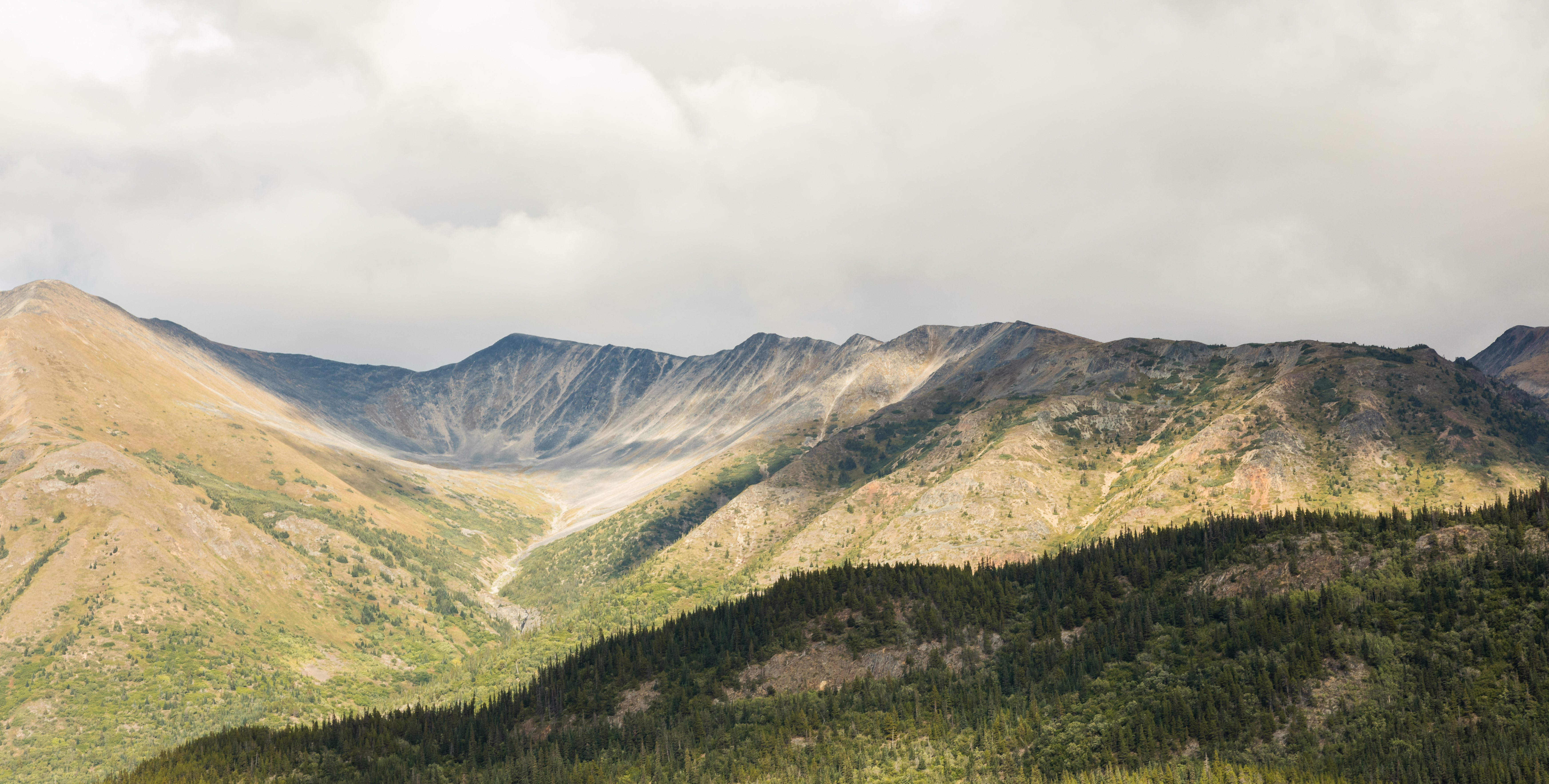 Mount Skelly, British Columbia, Canadá